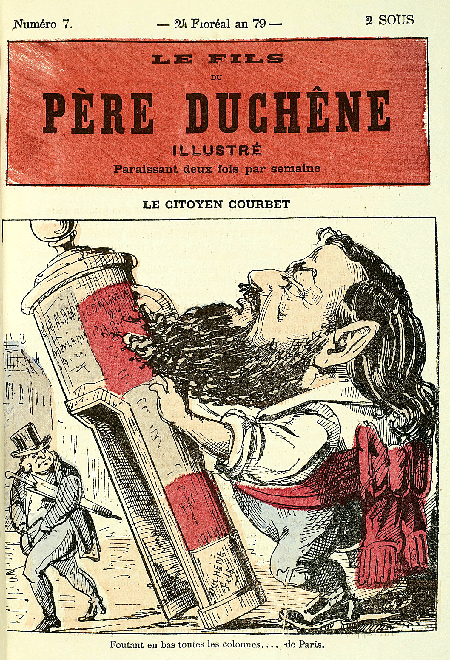 Pere Duchesne illustration from French Wikipedia. 1871 illustration. Public domain. For use with translation of article.